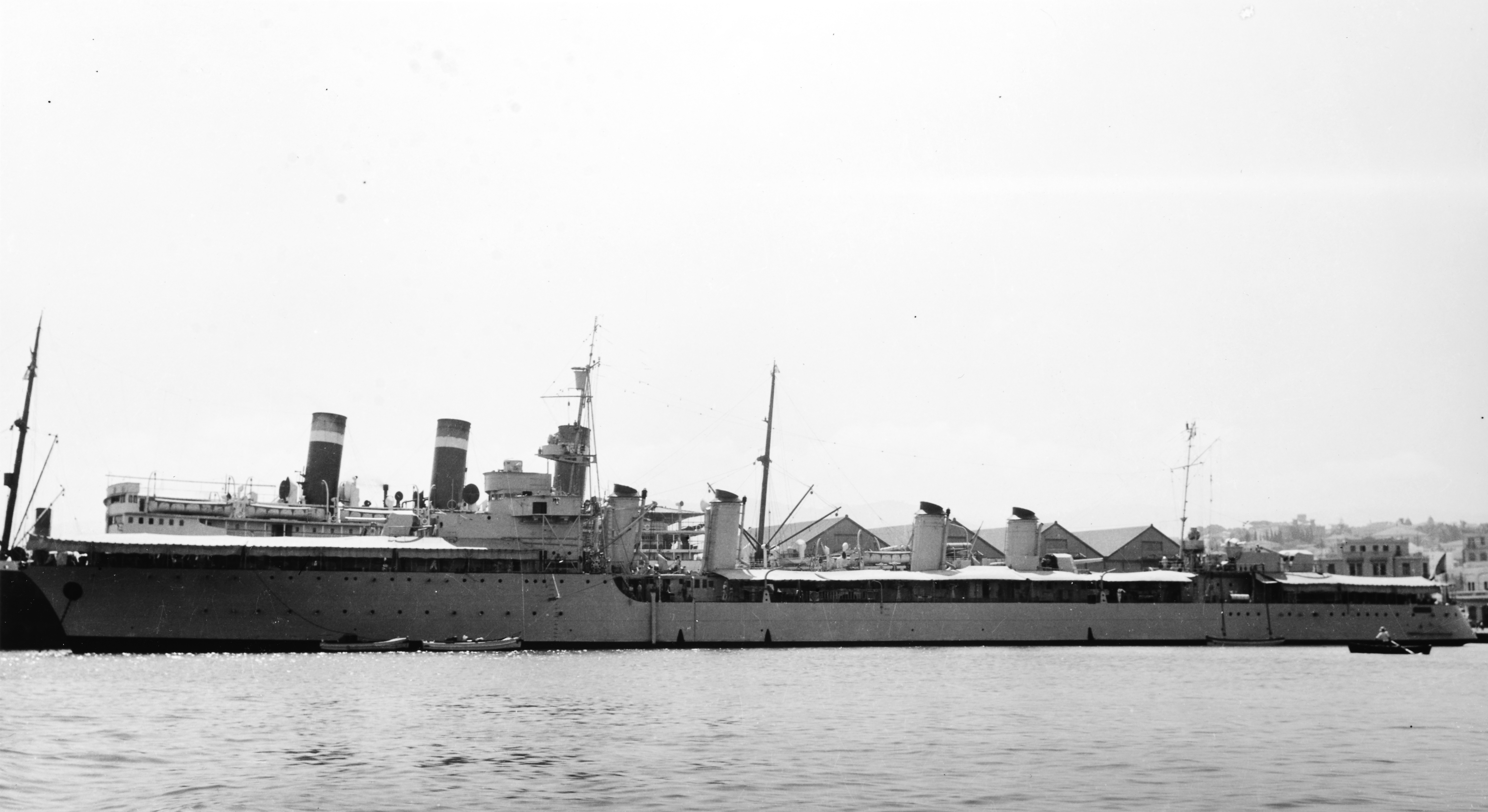 The French destroyer Vauban at Beirut, Lebanon, on 19 July 1937. The French Fabre Line passenger ship in the background is either Providence (1915-1952) or Patria (1913-1940). Both were operated by Messageries Maritimes at this time.